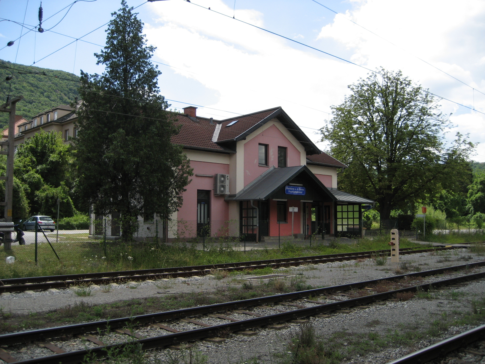 Hainburg Frachtenbahnhof train station in Lower Austria